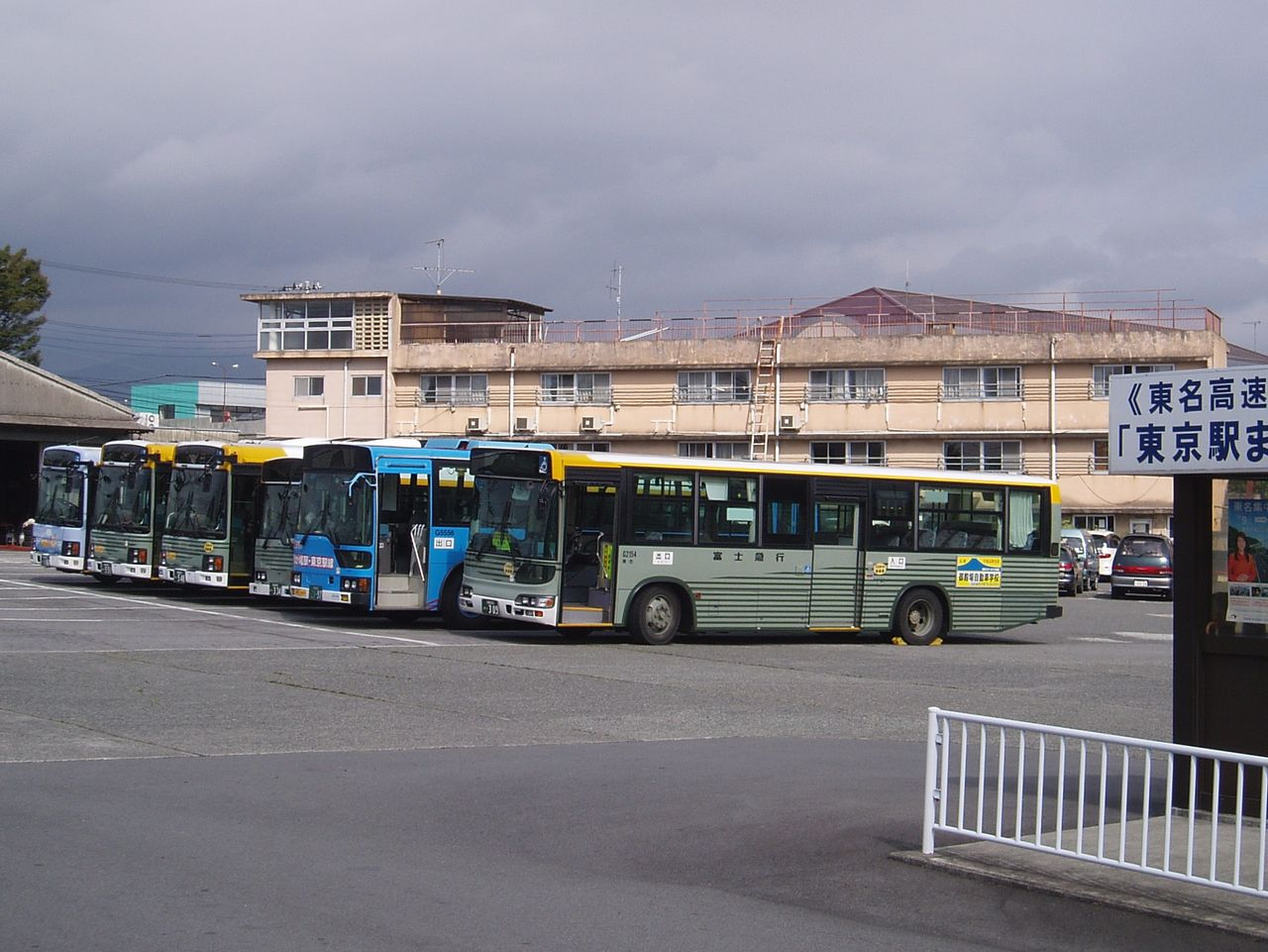 Fujikyu Gotemba Branch